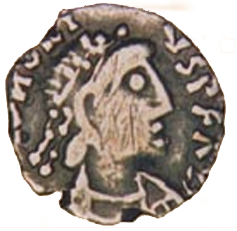 Vandal Coin